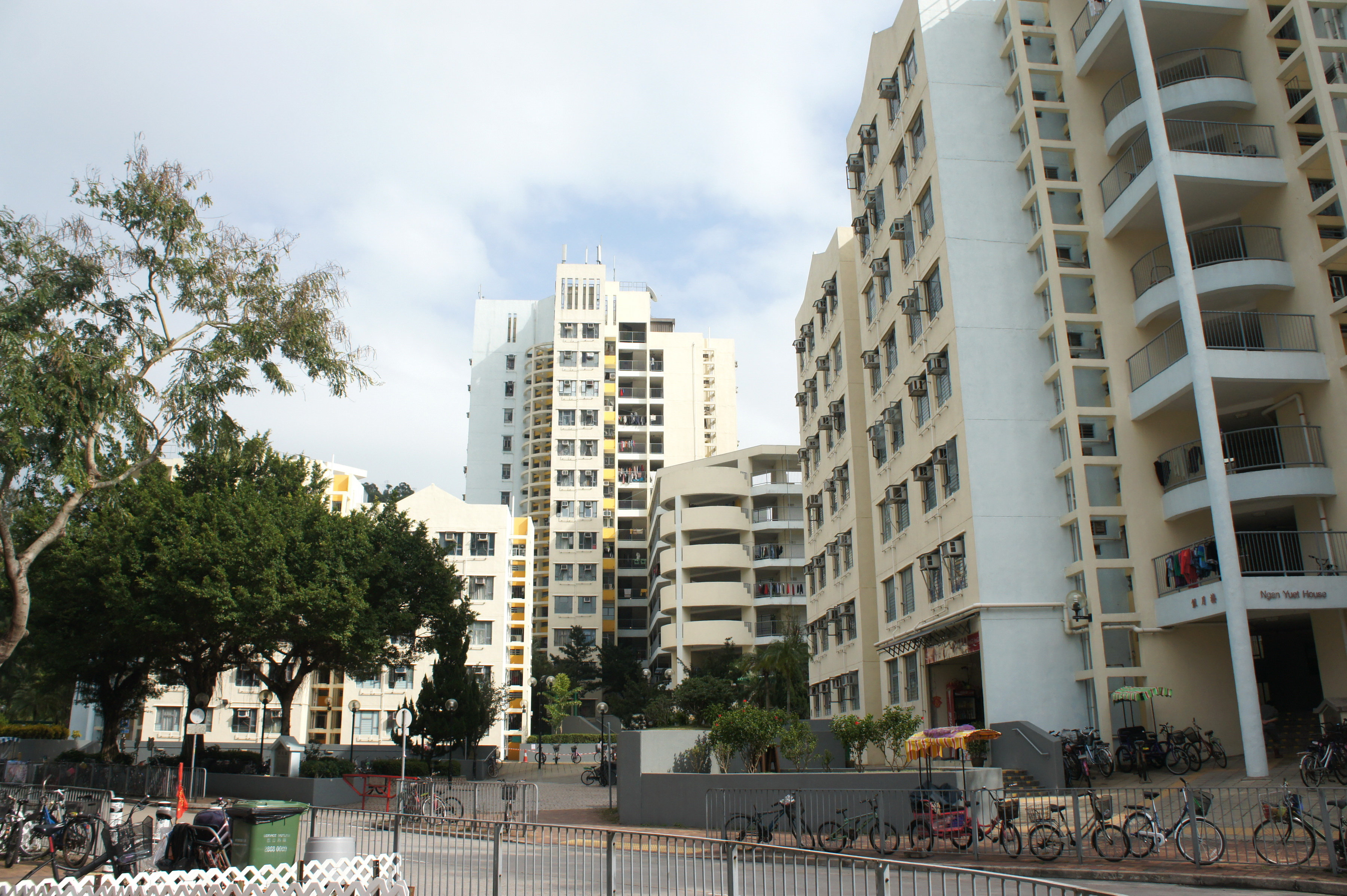 Ngan Wan Estate, Mui Wo, Lantau Island, Hong Kong.